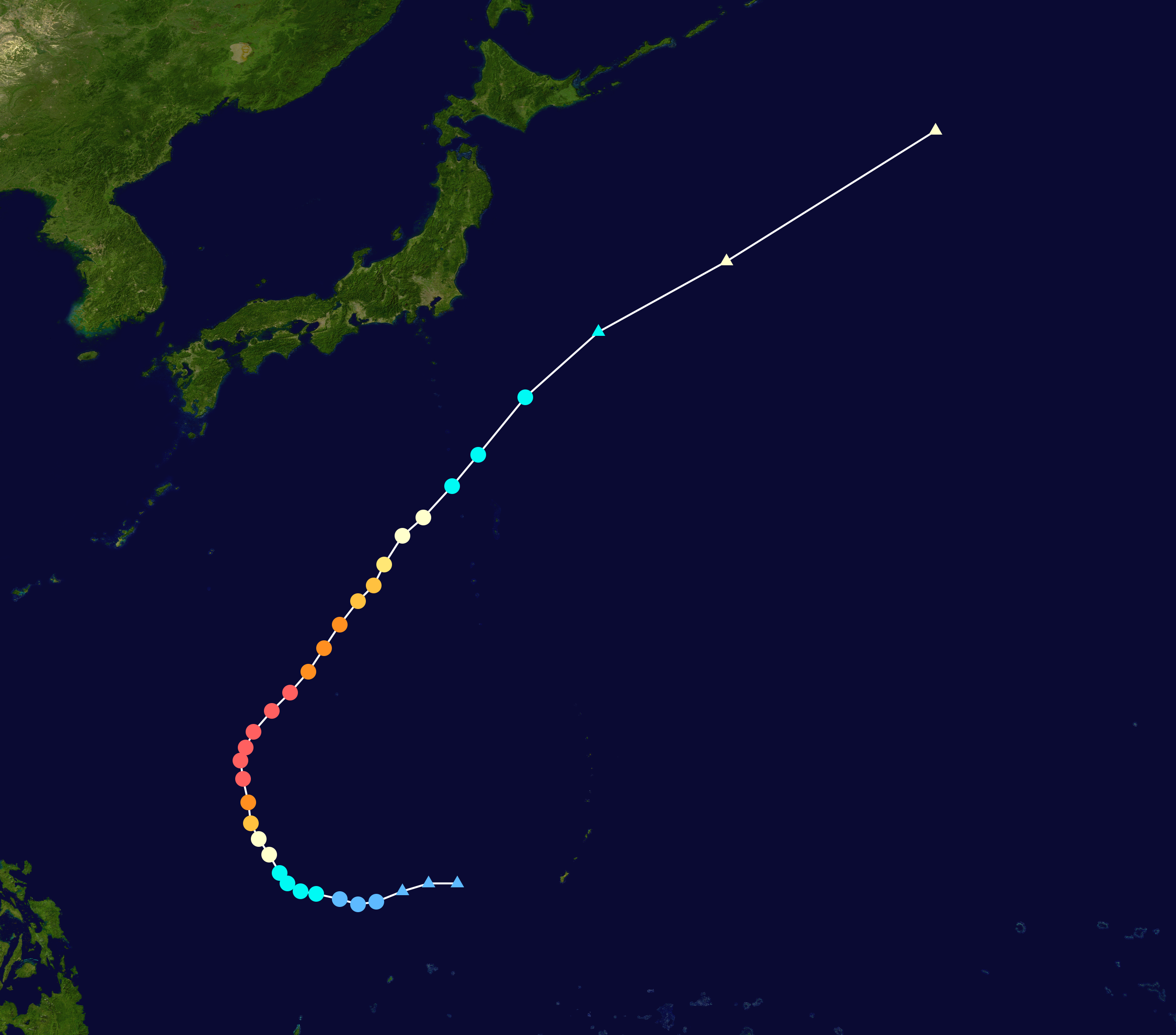 Track map of Typhoon Nuri of the 2014 Pacific typhoon season. The points show the location of the storm at 6-hour intervals. The colour represents the storm's maximum sustained wind speeds as classified in the Saffir–Simpson scale (see below), and the shape of the data points represent the nature of the storm, according to the legend below. Saffir–Simpson scale Tropical depression≤38 mph≤62 km/h Category 3111–129 mph178–208 km/h Tropical storm39–73 mph63–118 km/h Category 4130–156 mph209–251 km/h Category 174–95 mph119–153 km/h Category 5≥157 mph≥252 km/h Category 296–110 mph154–177 km/h Unknown Storm type Tropical cyclone Subtropical cyclone Extratropical cyclone / Remnant low / Tropical disturbance / Monsoon depression